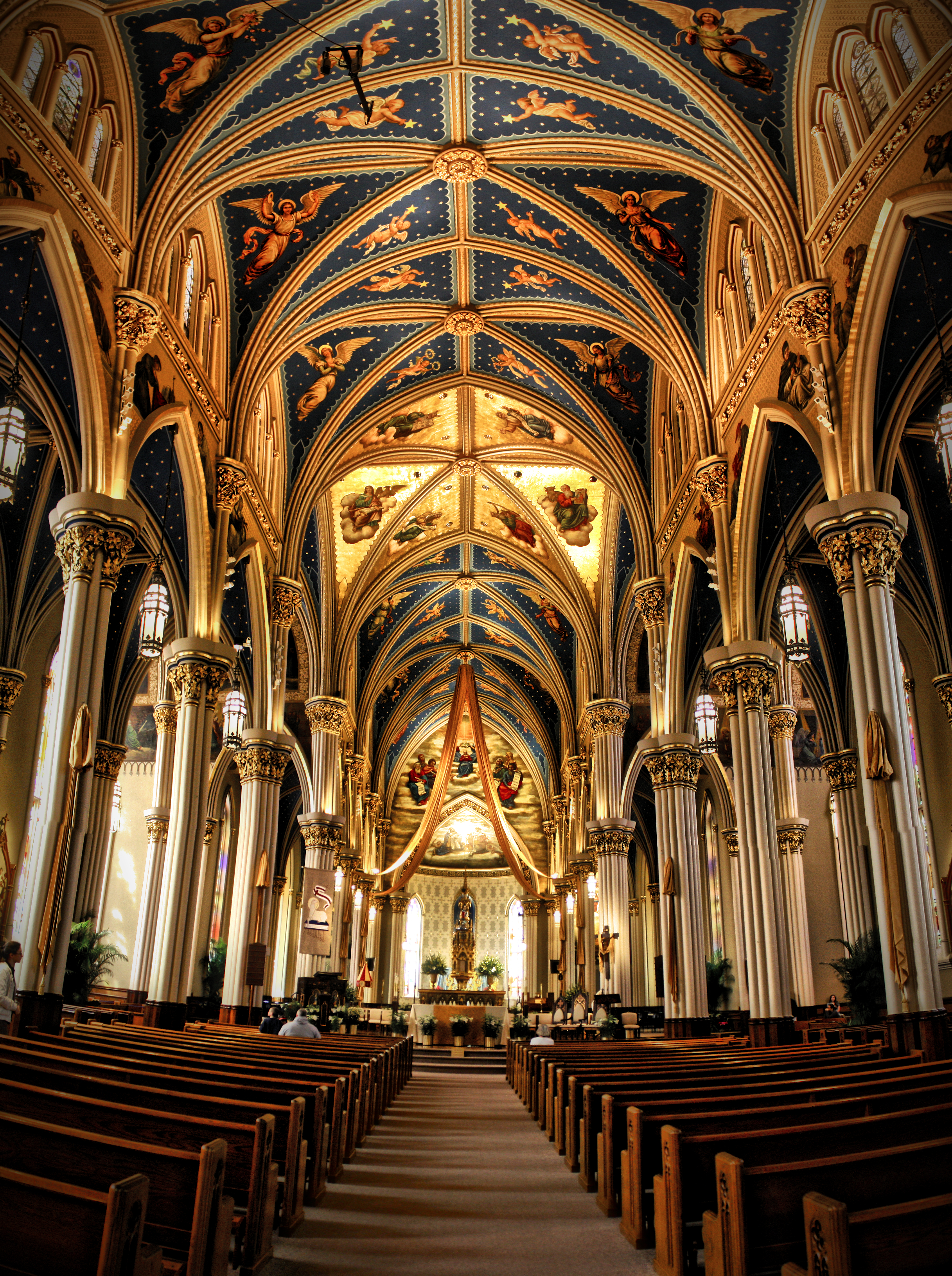 The Basilica of the Sacred Heart, which is located in the center of the University of Notre Dame's campus.